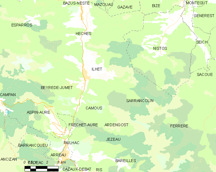 Map of French municipality